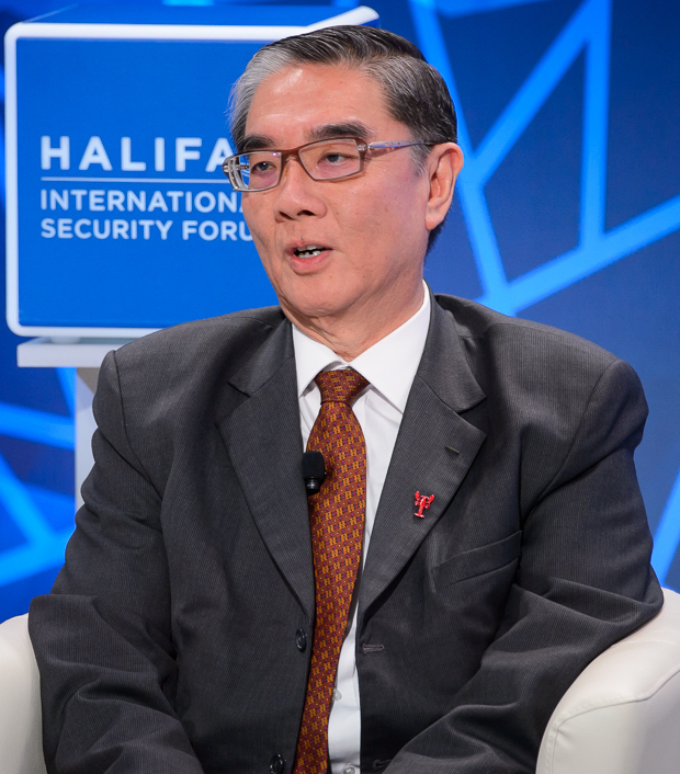 Plenary session “Weaponizing Capital: One Belt, One Road, One Way,” with Ambassador Keng Yong Ong, Executive Deputy Chairman of the S. Rajaratnam School of International Studies at the Nanyang Technological University in Singapore.